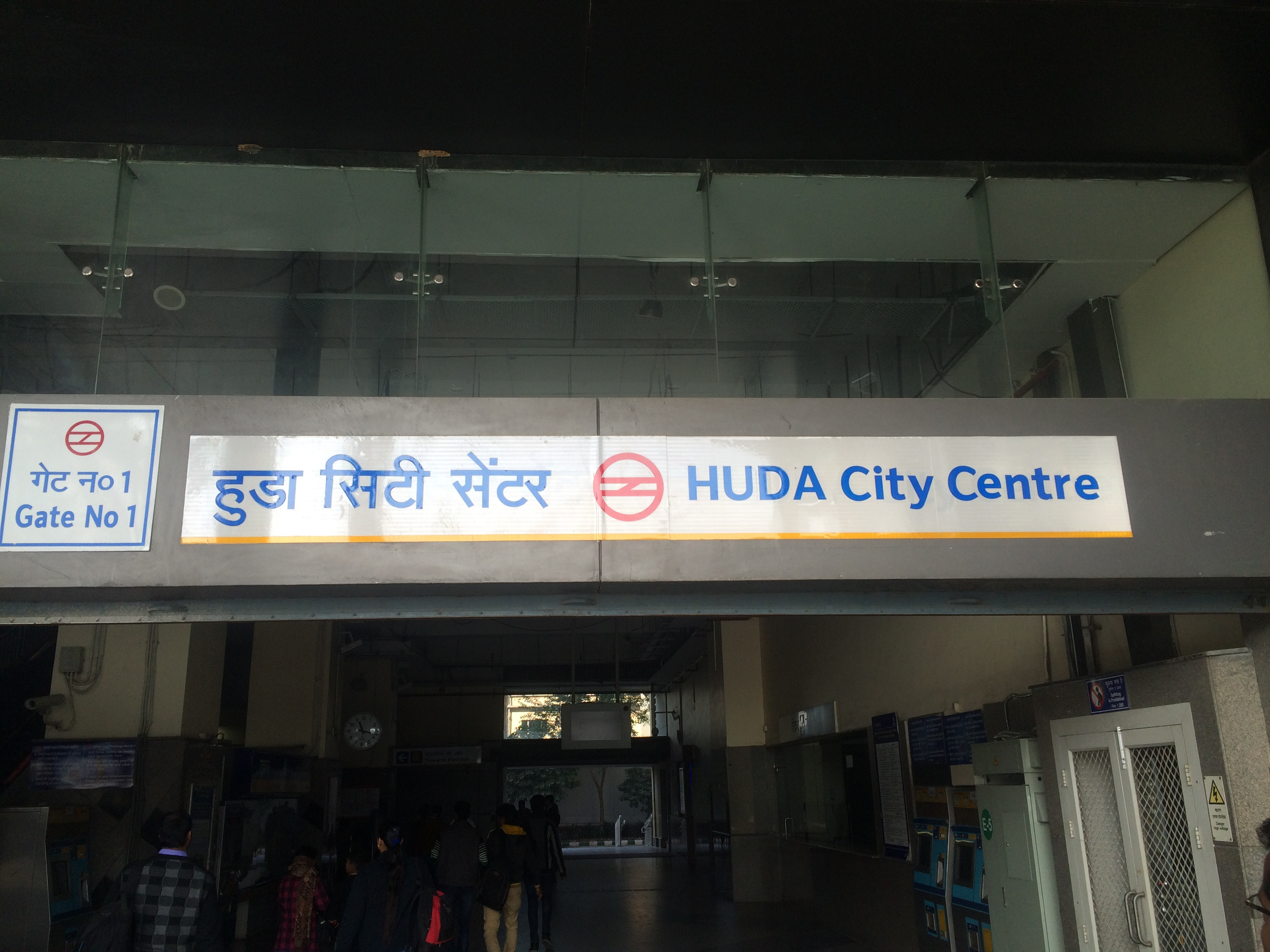 HUDA City Centre metro station - Entrance